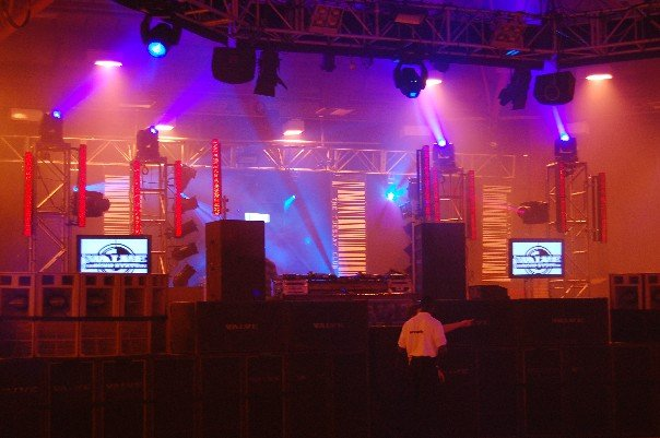 I took this picture